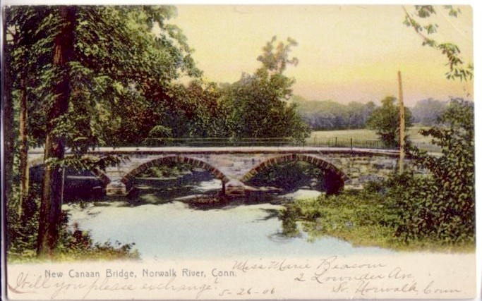 Postcard: View of the New Canaan Bridge, Norwalk River, Connecticut, 1906 postmark Description: "Undivided Back Postcard (1901-1907) Series/ No. 11643; Used/Unused pms 1906"